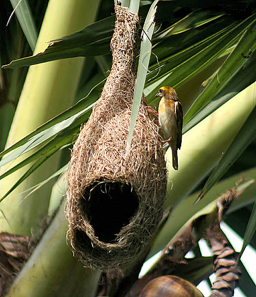 Baya Weaver Ploceus philippinus in Kolkata, West Bengal, India.